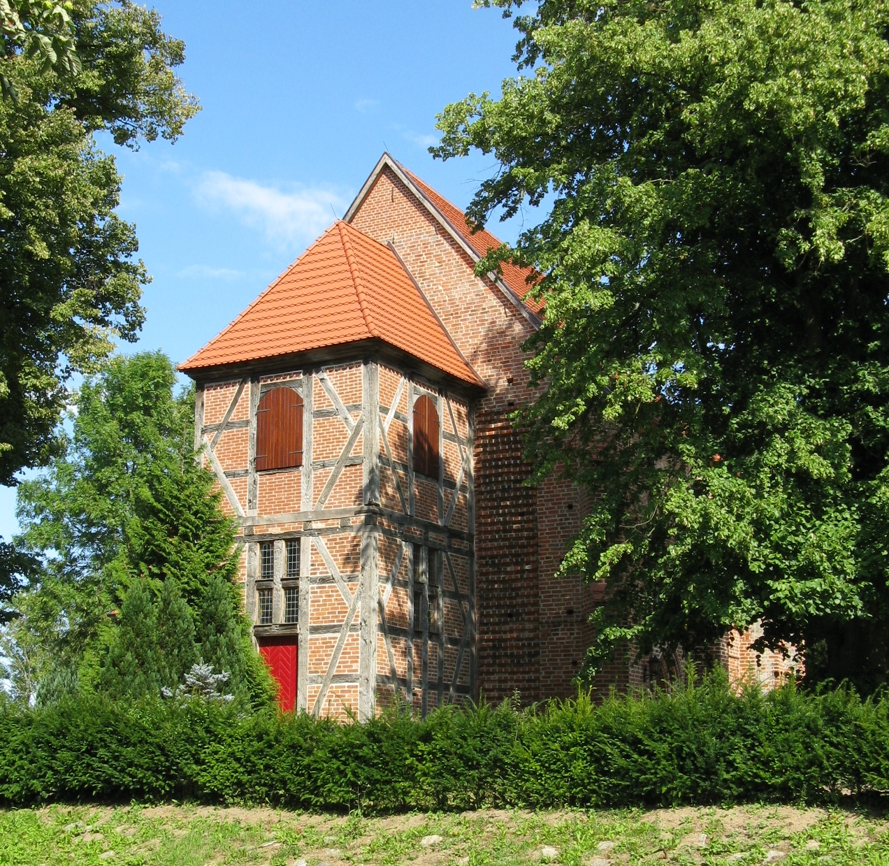 Church in Bibow, Mecklenburg-Vorpommern, Germany